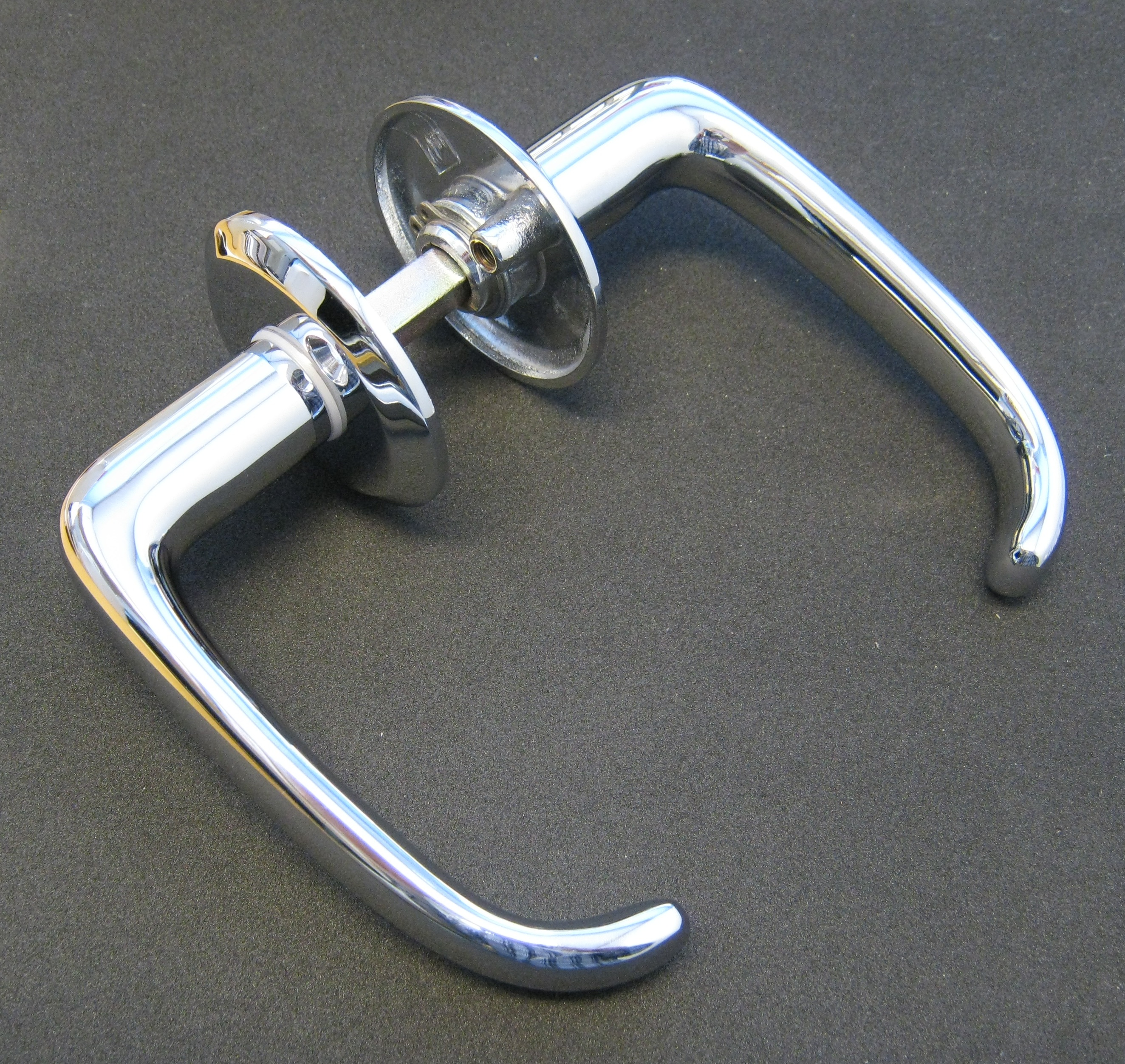 Door Handle